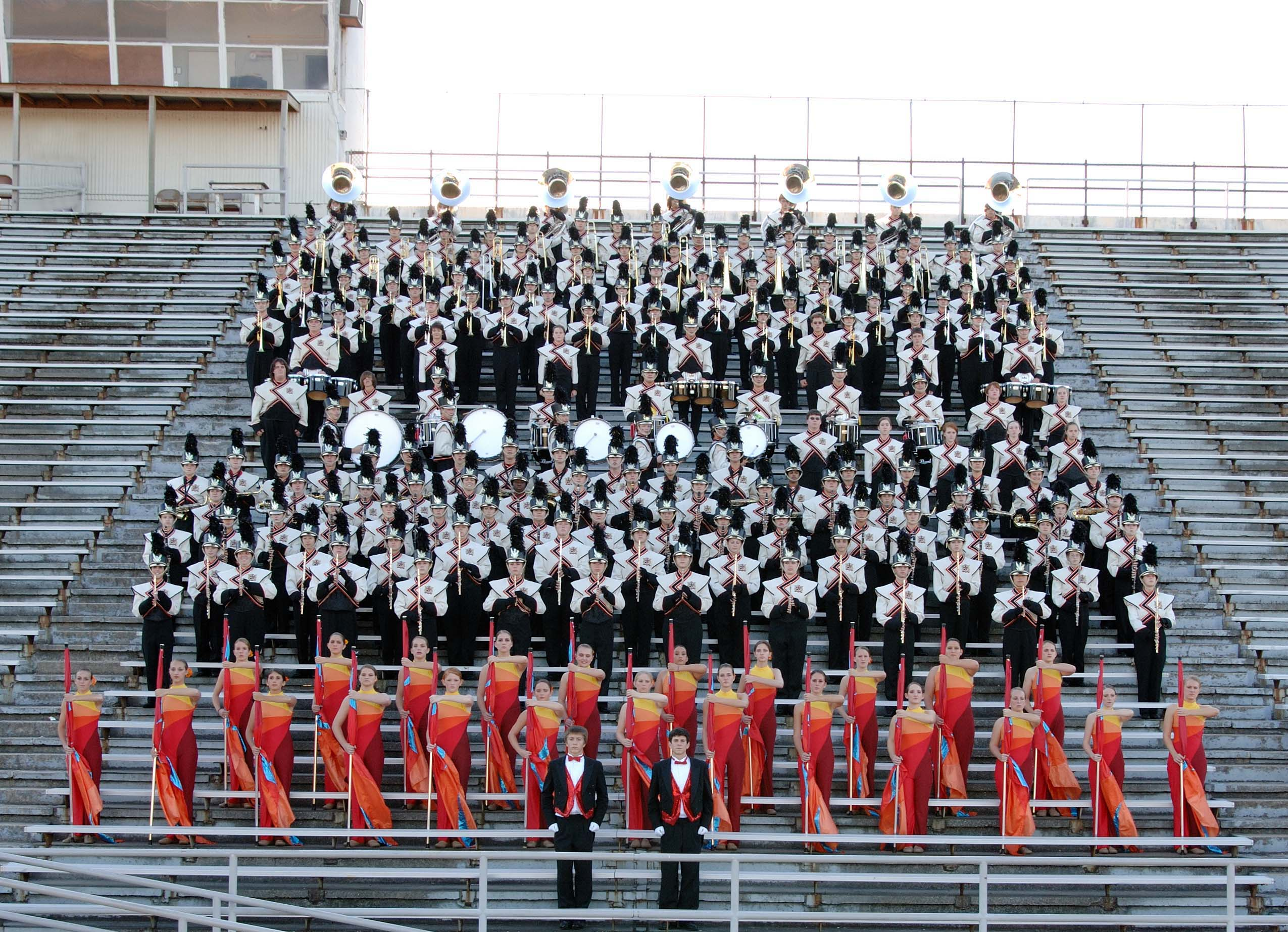 This is the 2006-2007 Grissom High School Band